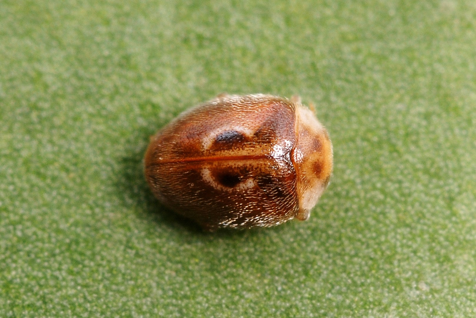 A very, very small ladybird (~1 mm) specialized on whiteflies (Aleyrodoidea) predation